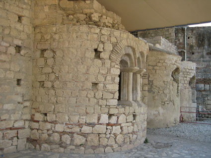 St Nicolas Church